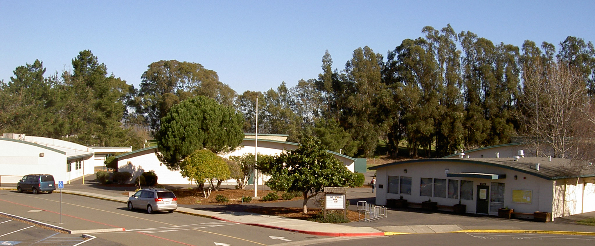 Thomas Page Elementary School in Cotati on a school holiday